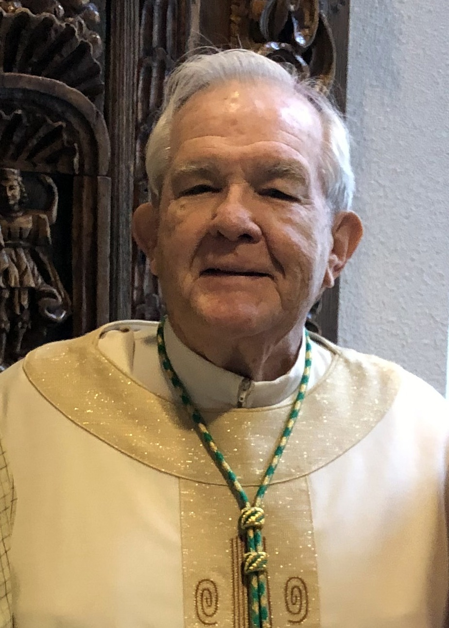 Bishop Emeritus James Griffin photographed in 2019 at St. Brigid of Kildare Church in Dublin, Ohio